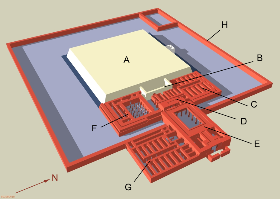 Restored view of Neferefre's unfinished pyramid and mortuary temple at Abusir - 5th dynasty of Egypt